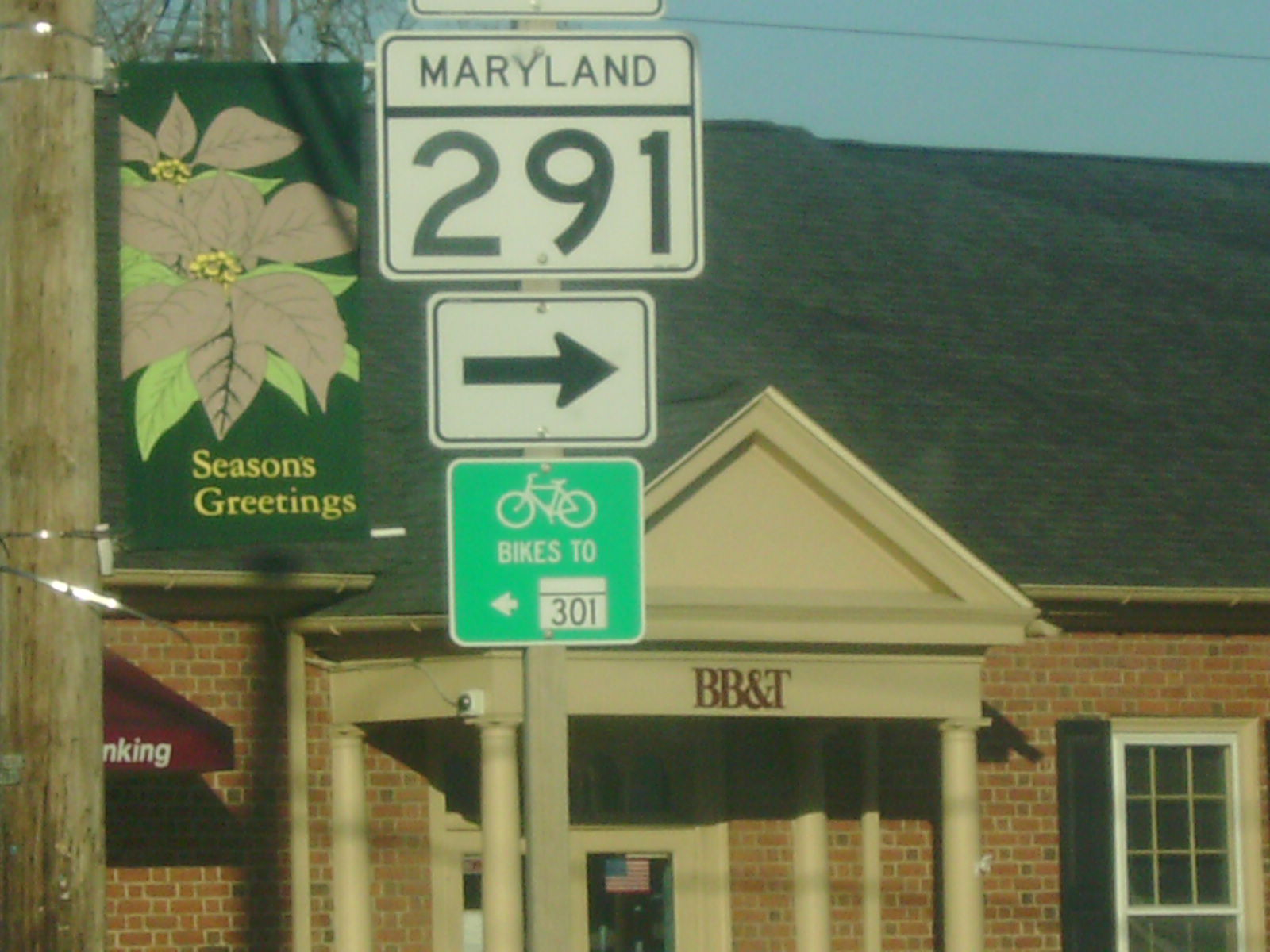 Maryland Route 291 shield along Maryland Route 313 in Millington. Note the Maryland Route 301 error on the bike sign.